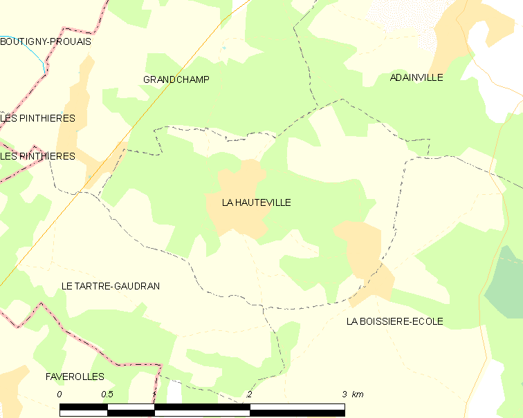 Map of French municipality La Hauteville